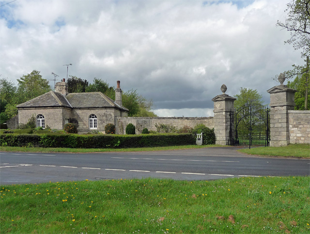 Lodge and gates near Firbeck